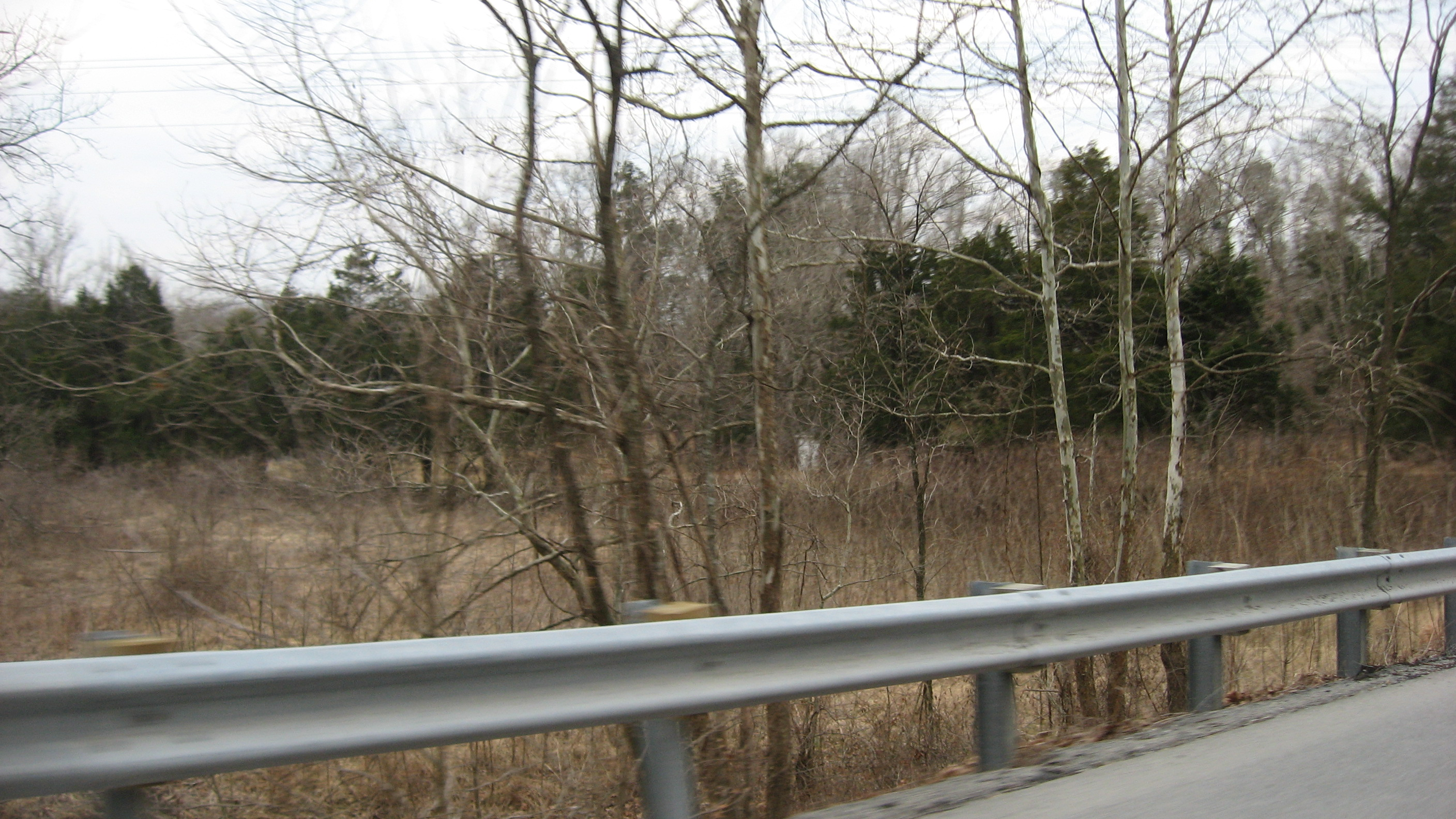 Overview of the site of the former Grayson Springs Resort, located along Kentucky Routes 88/1214 east of Leitchfield in Grayson County, Kentucky, United States. The site is listed on the National Register of Historic Places.